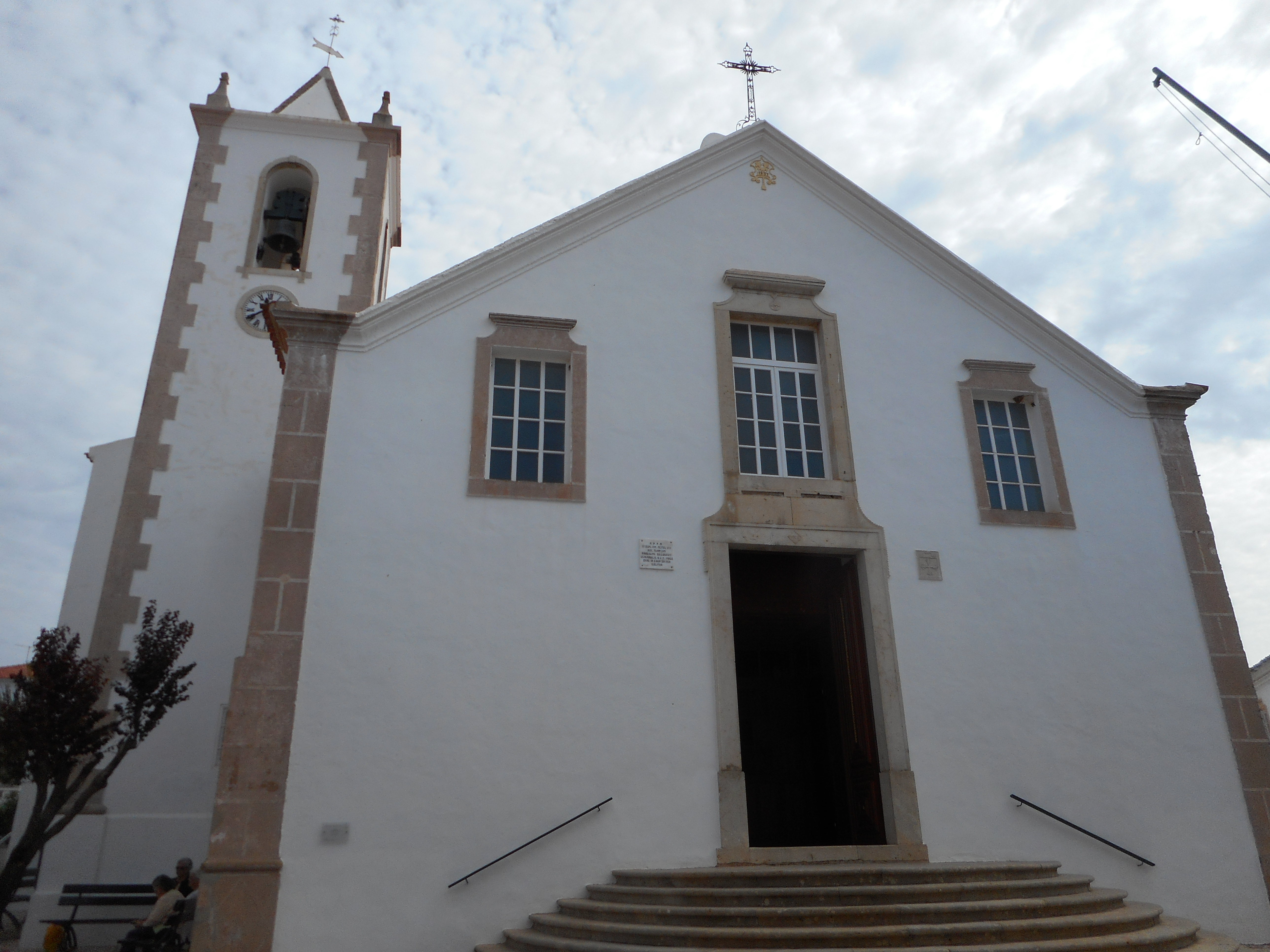 Igreja de Nossa Senhora da Esperança (Parish Church) is located on Praça da República, in the village of Paderne, Albufeira, Algarve, Portugal. This church was built in the second half of the 16 century but underwent major alterations in the 18 and 19 century's. The church is in the Renaissance style with a number of Manueline features. Inside the church there several alterpieces of note.